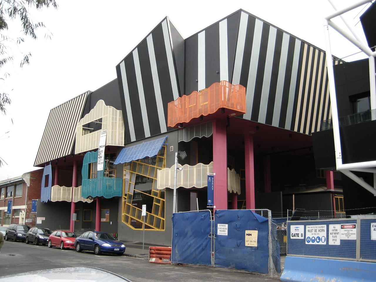 The VCA Theatre building in Southbank, Melbourne, Australia, by Edmond & Corrigan architects.